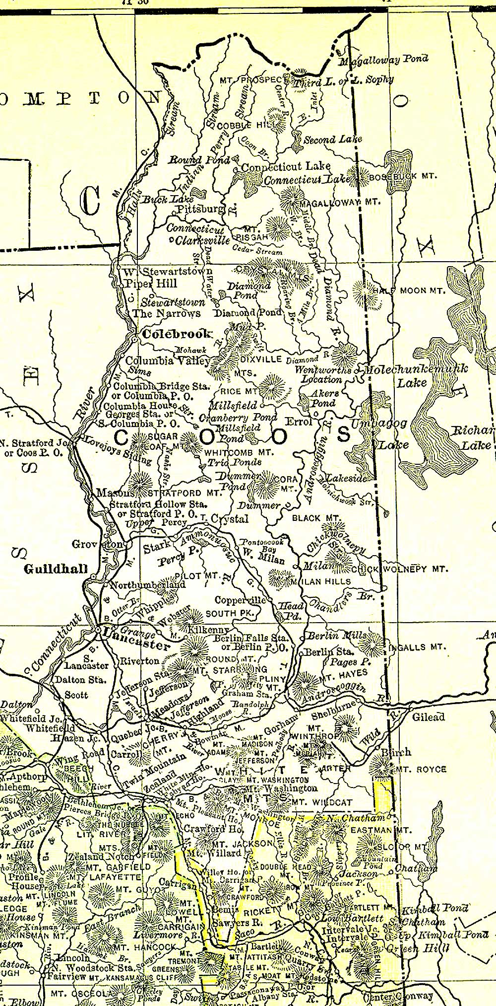 1895 map of Coos County, NH